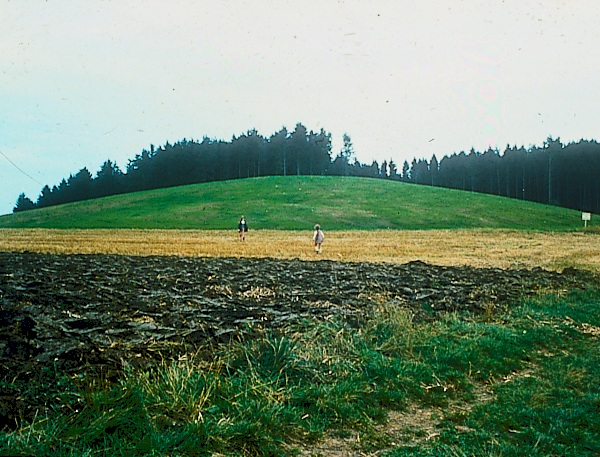 Magdalenenberg near Villingen-Schwenningen, Germany